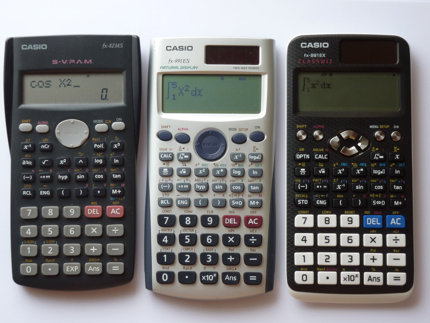 Casio Scientific Calculators FX 82MS (240 functions) FX 991ES (403 functions and 40 scientific constants) FX 991EX Classwiz (552 functions and 47 scientific constants)